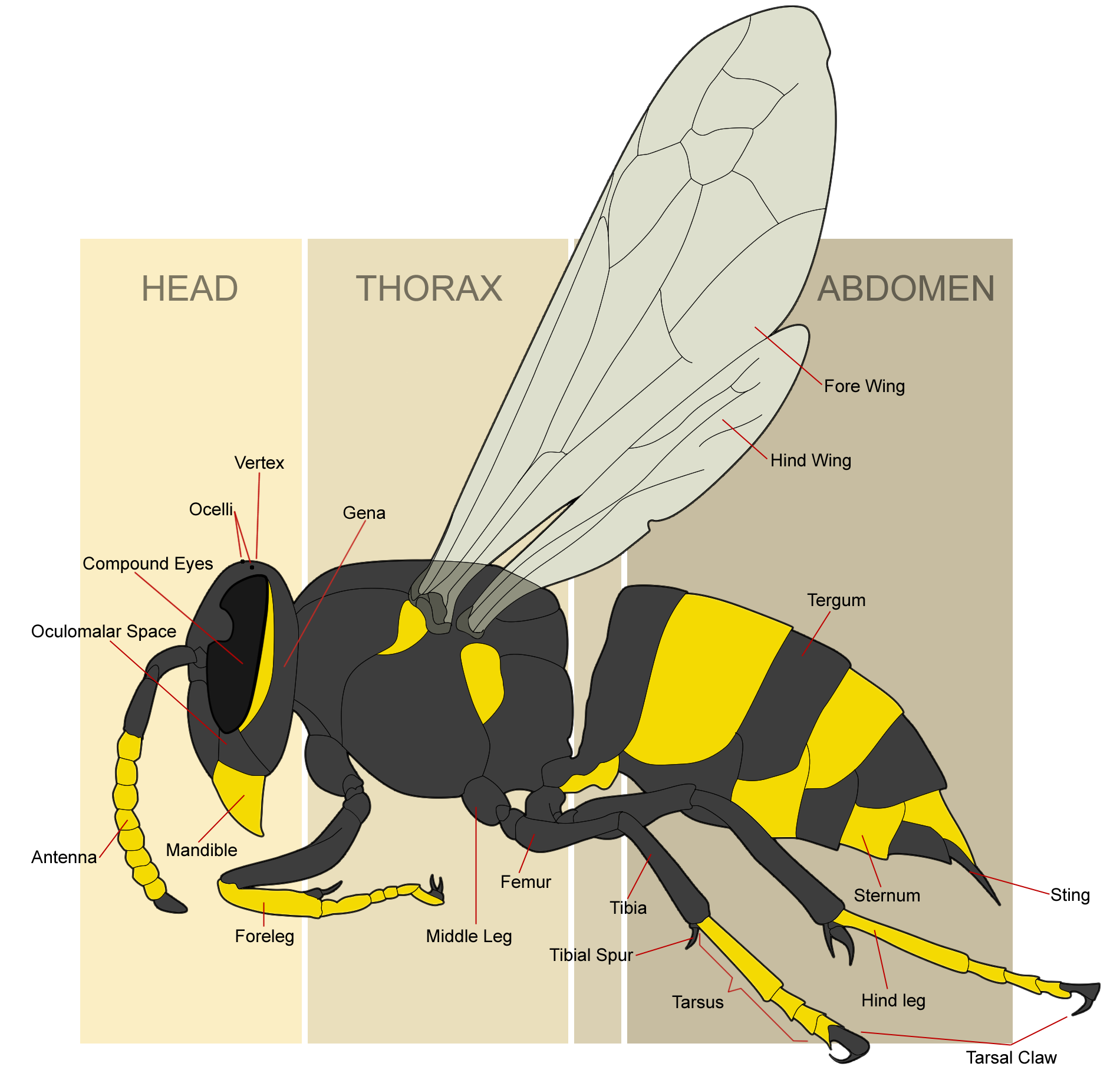 Sterile Female Worker Wasp Morphology. It can be identified as a female by both the number of divisions on its antenna and by its sting. This particular wasp is very close in likeness to a yellowjacket found commonly all around the world.